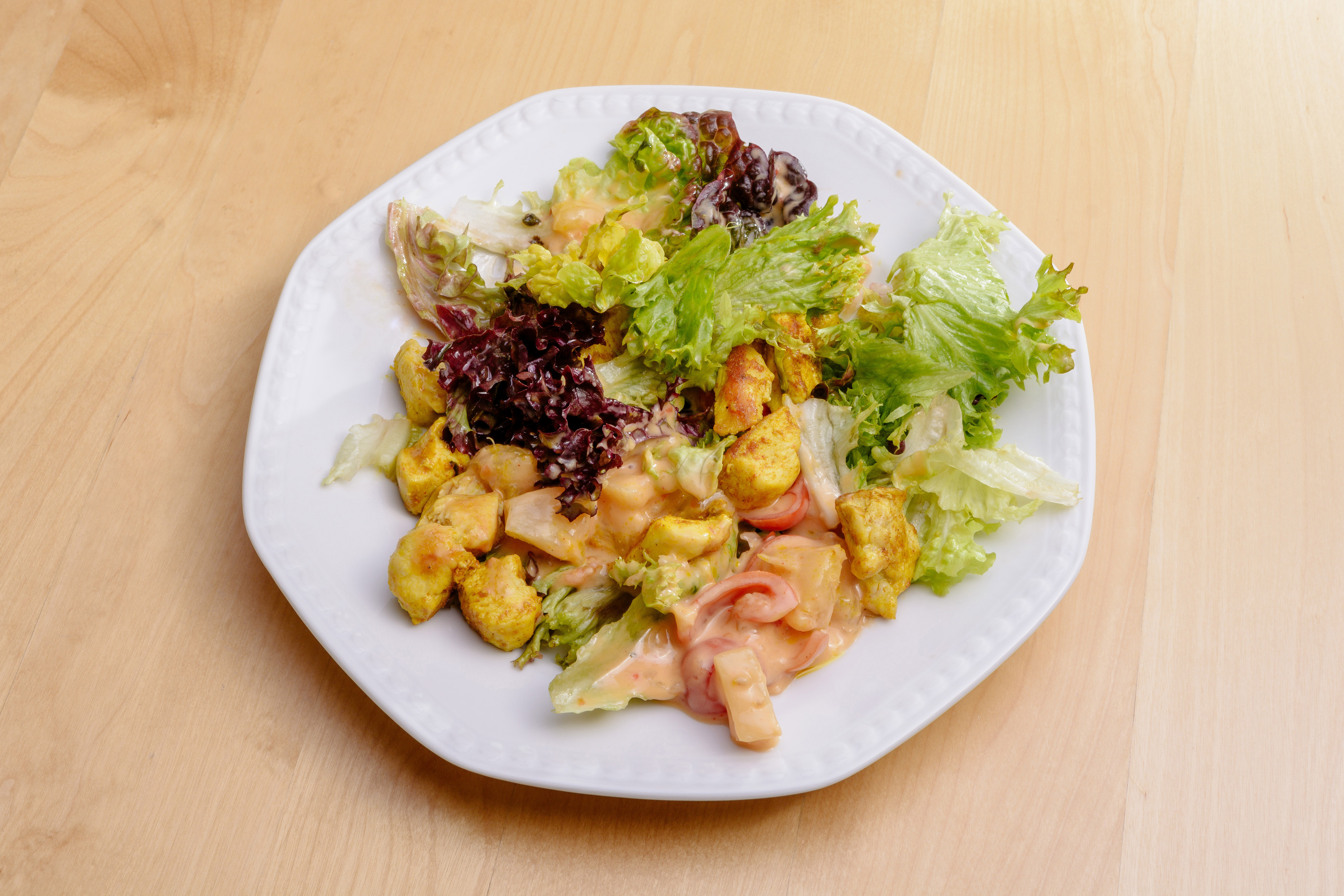 "Palm Beach" salad with turkey and pineapple